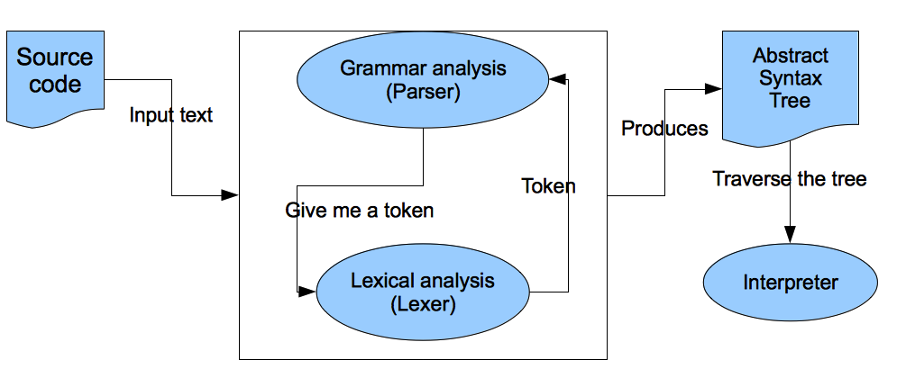 ast